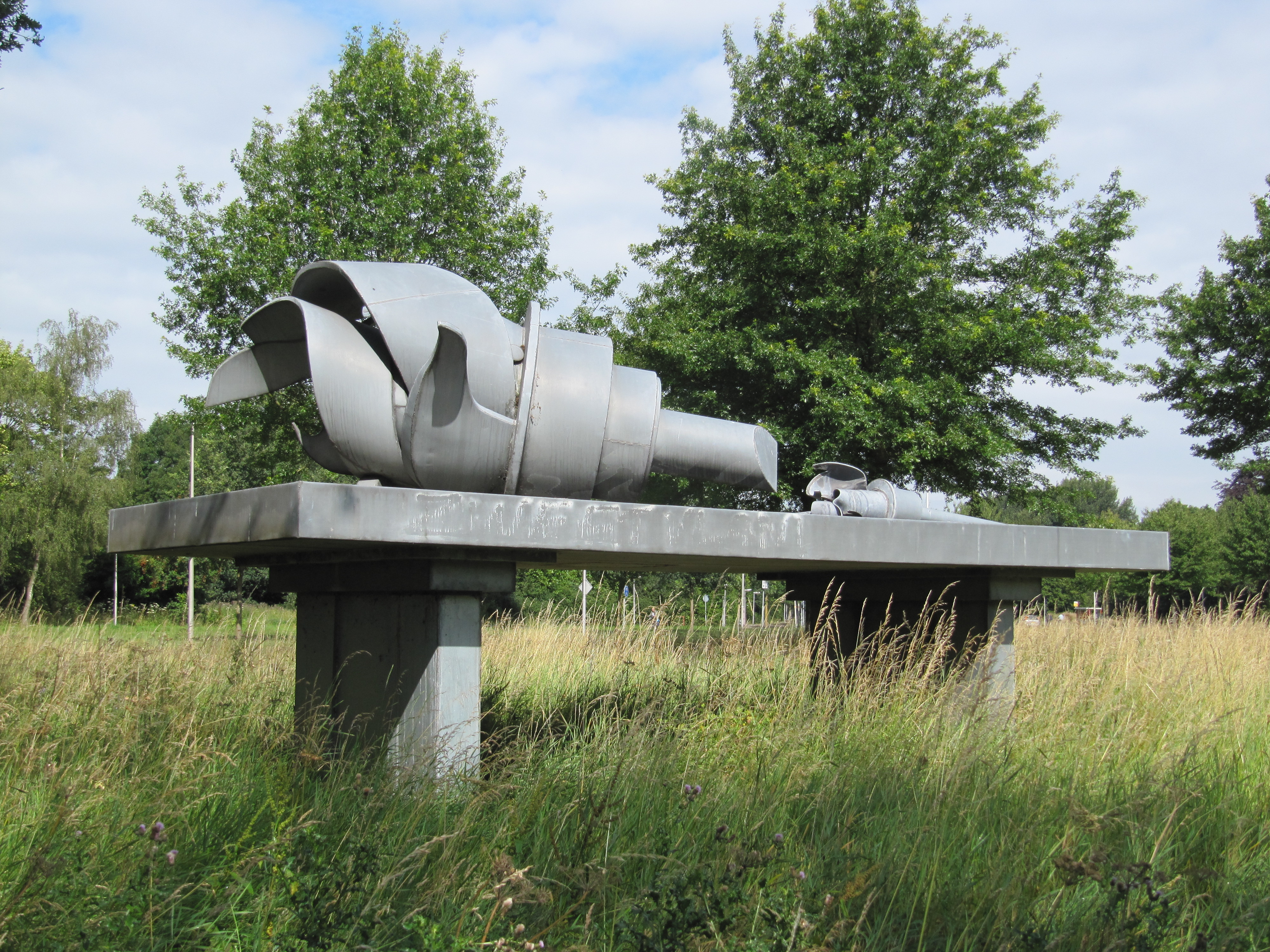 Monument to commemorate Steve Biko by Arnaud Beerends at the Steve Bikoplein in Nijmegen, The Netherlands